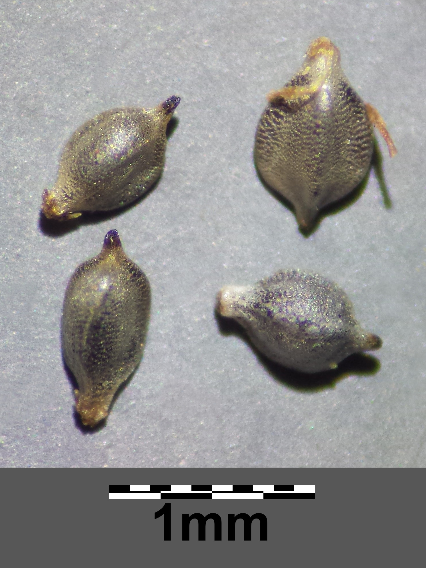 Fruits Taxonym: Scirpoides holoschoenus ss Fischer et al. EfÖLS 2008 ISBN 978-3-85474-187-9 Location: ArbeiterInnenstrand at Alte Donau (former Arbeiterstandbad), Vienna-Donaustadt - ca. 160 m a.s.l. Habitat: shore